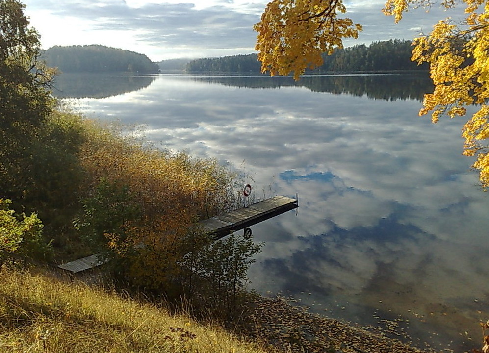 The lake Naten, Sörmland.